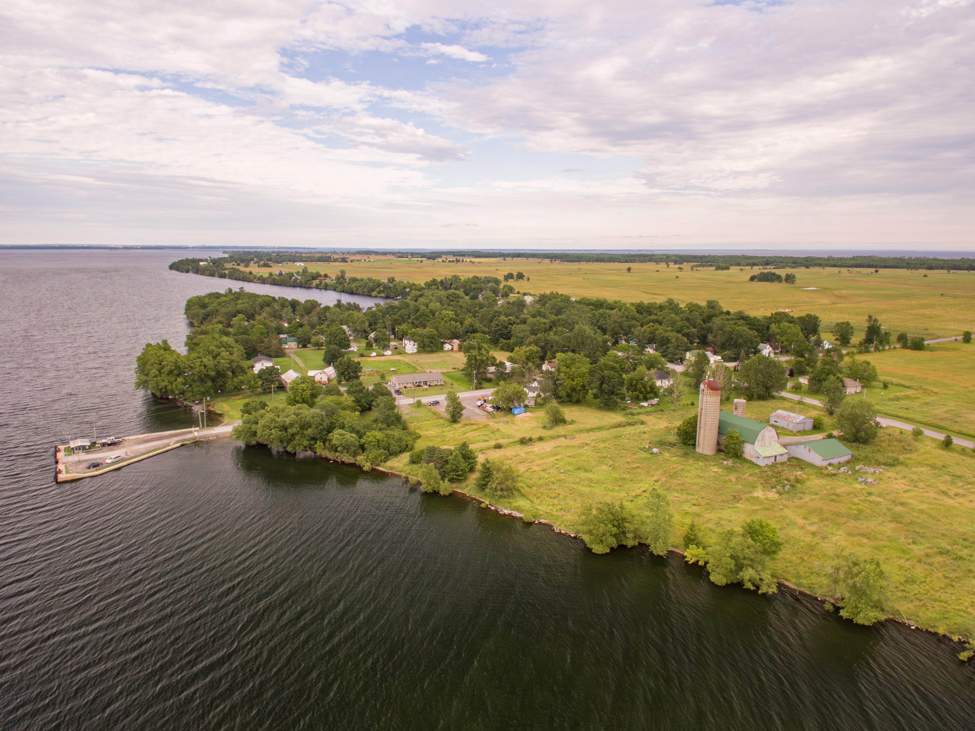 Aerial view of Amherst Island, Ontario, overlooking the village of Stella with the ferry dock in view.